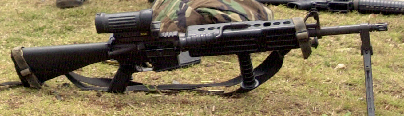 Royal Netherlands Marine Corps Capt. Charles Suilen (kneeling prone position), attached to the U.S. Marine Corps 4th Marine Expeditionary Brigade, Camp Lejuene, N.C., fires an SA-80 (Small Arms for the 1980s) assault rifle down range at Sierra Prieta, Dominican Republic, on April 20, 2004, during unilateral training at the Joint Task Force Tradewinds 04 Multinational Training Exercise.